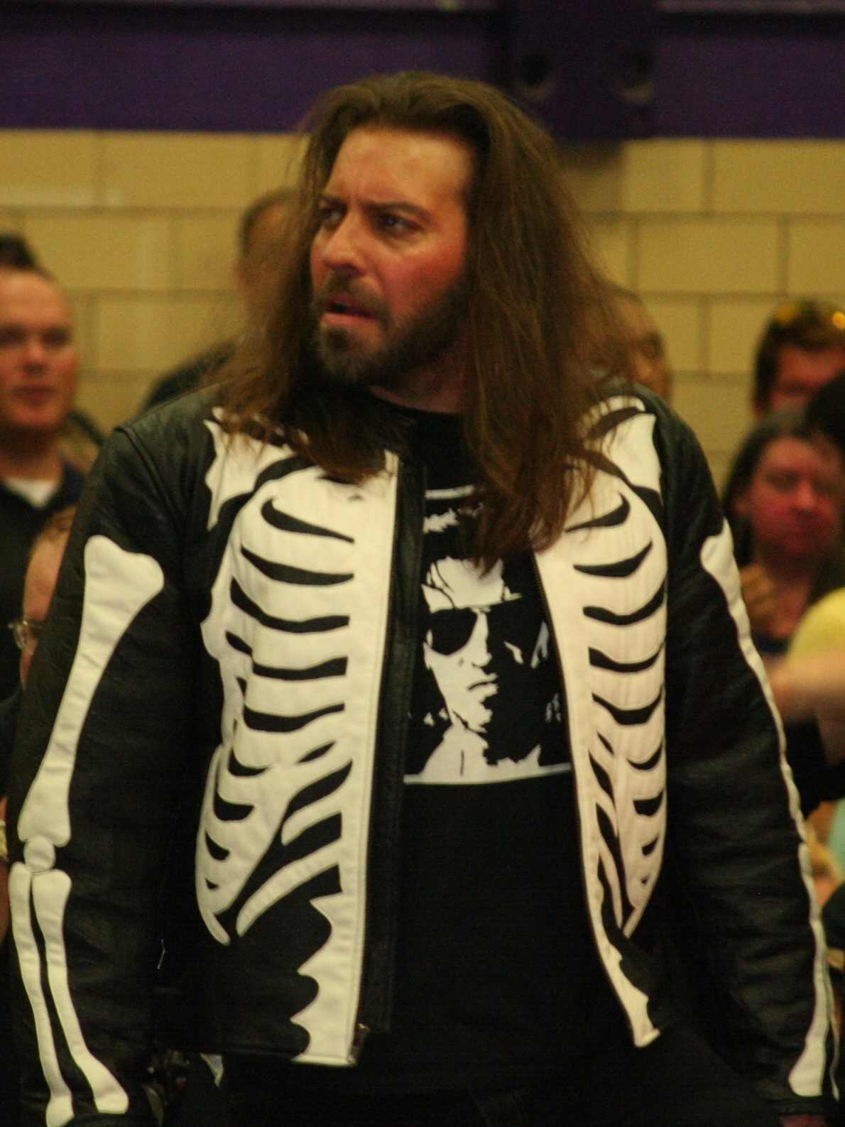 Professional wrestler Cliff Compton in April 2012.